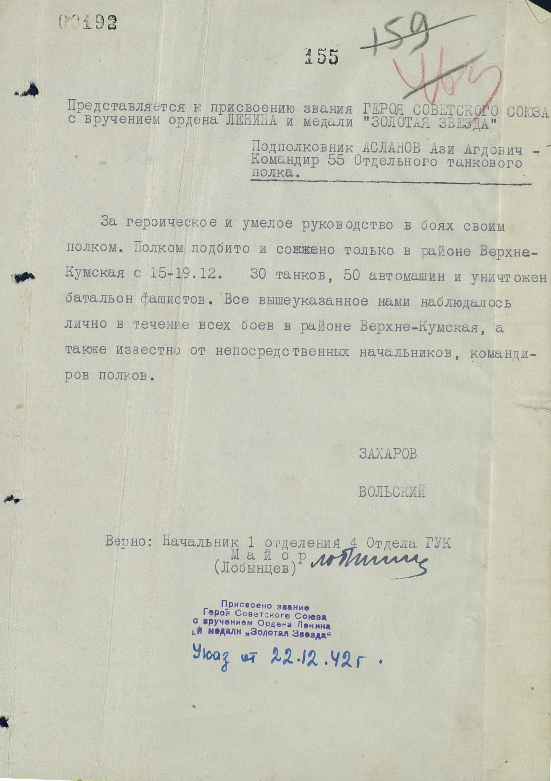 Heroof Soviet Union order of Hazi Aslanov